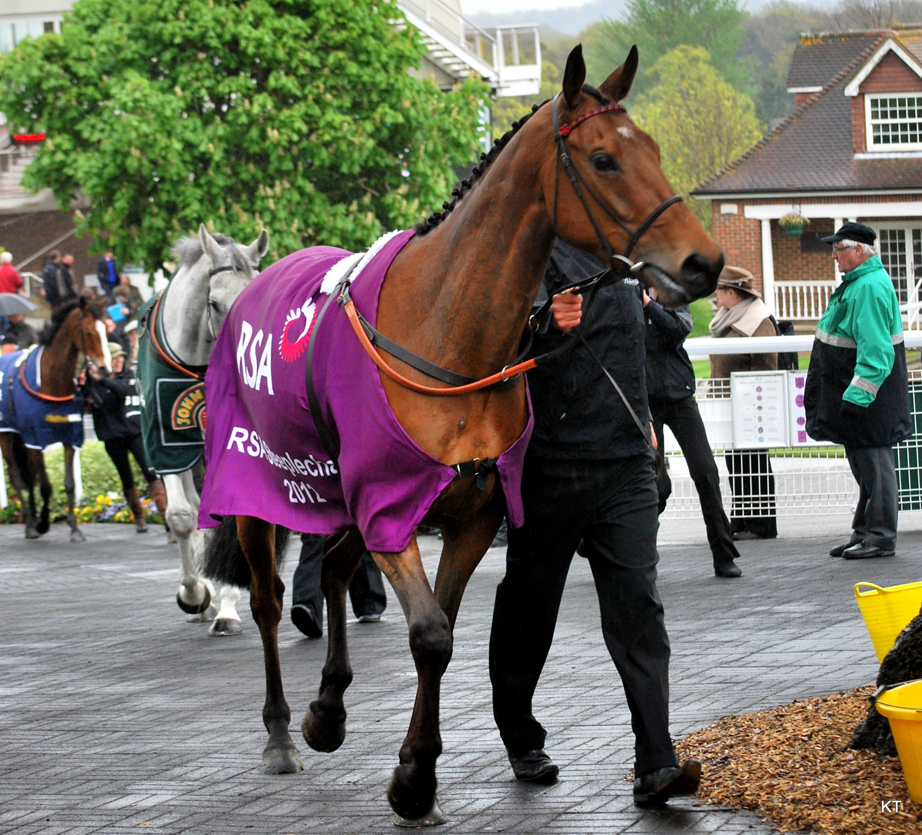 Bobbs Worth after the Champions Parade at Sandown on bet365 Gold Cup Day, April 28th 2012.